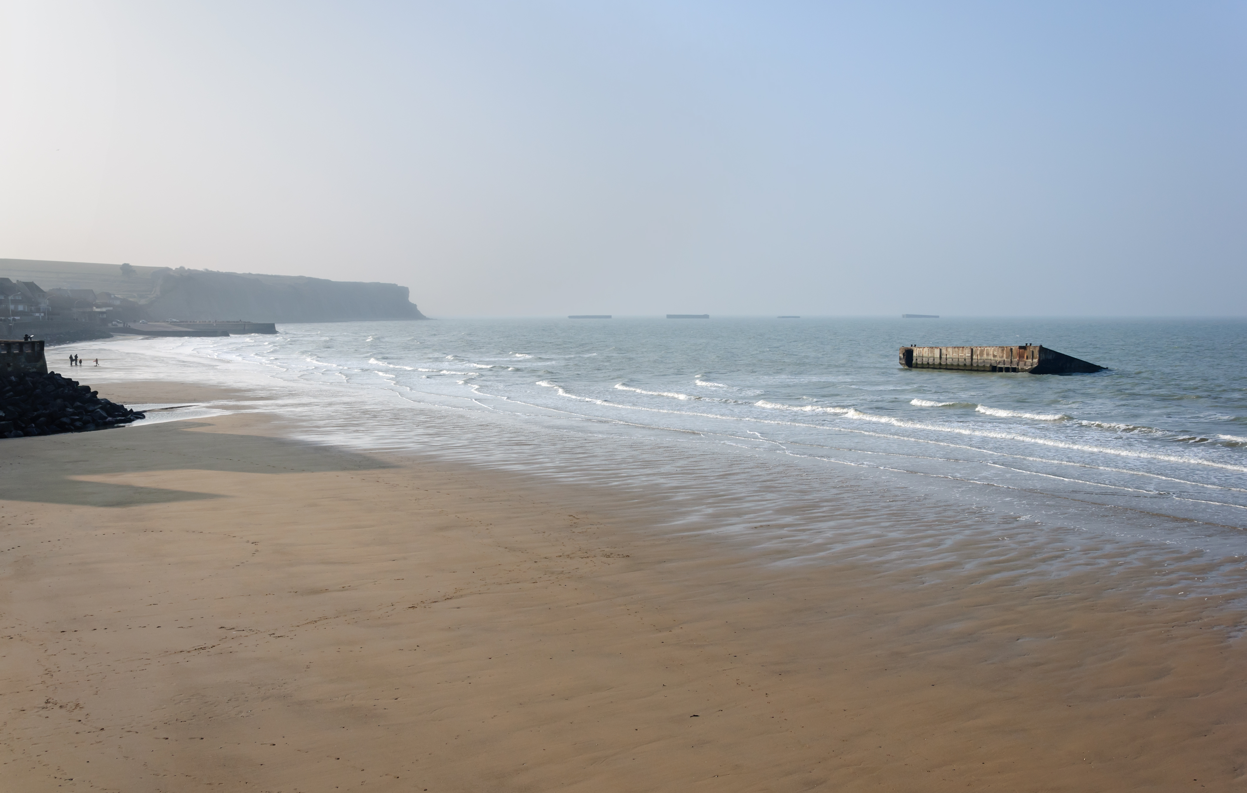 The beach of Arromanches-les-Bains in Normandy, France, with the remains of the portable temporary Mulberry harbour in the water.